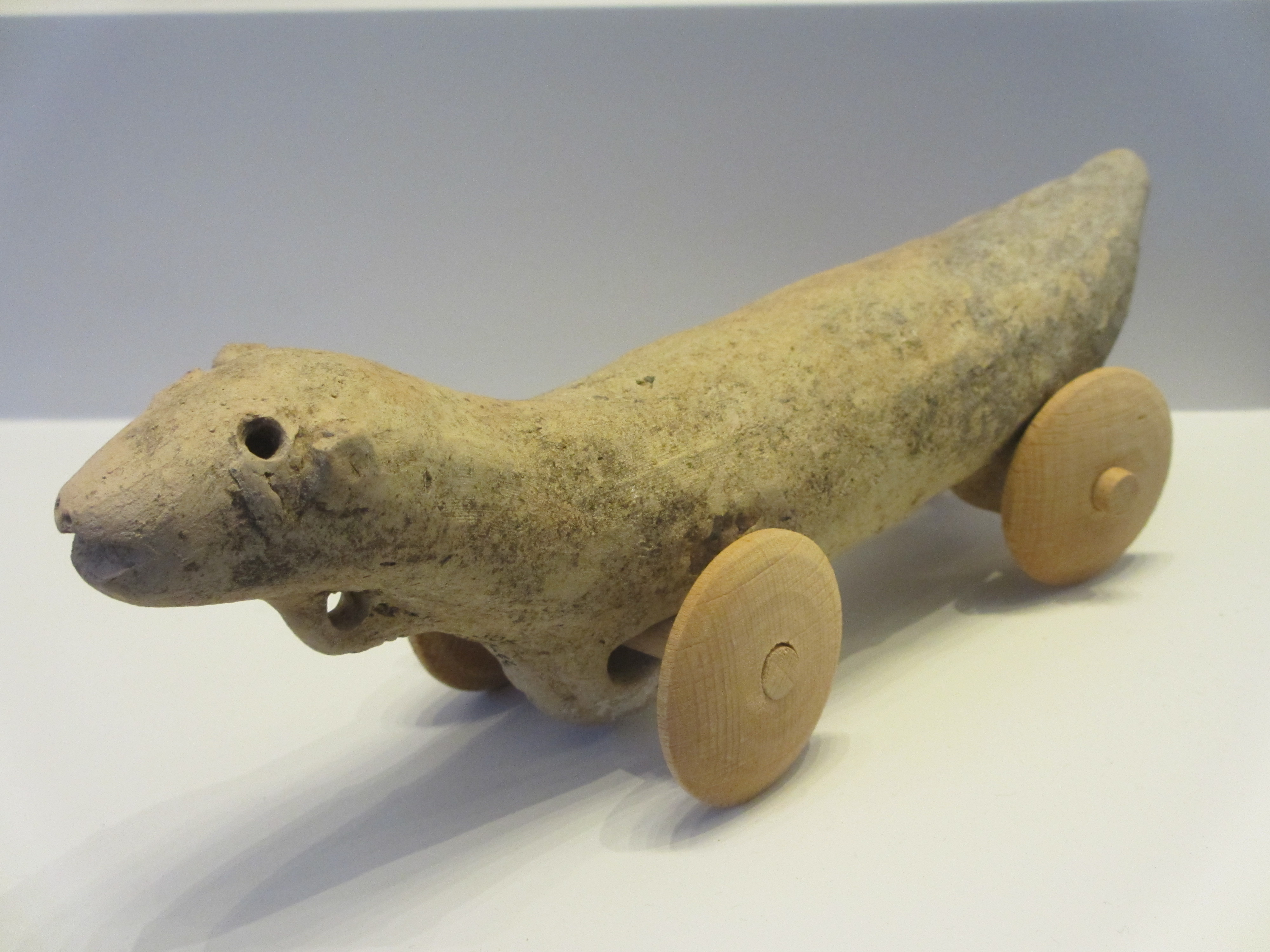 toy in shape of an otter from Bet Shemesh (11th-10th BCE). Israel Museum, Jerusalem